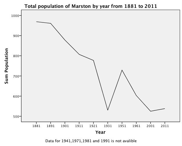 Graph to show the changes of Marston's population between 1881 and 2011